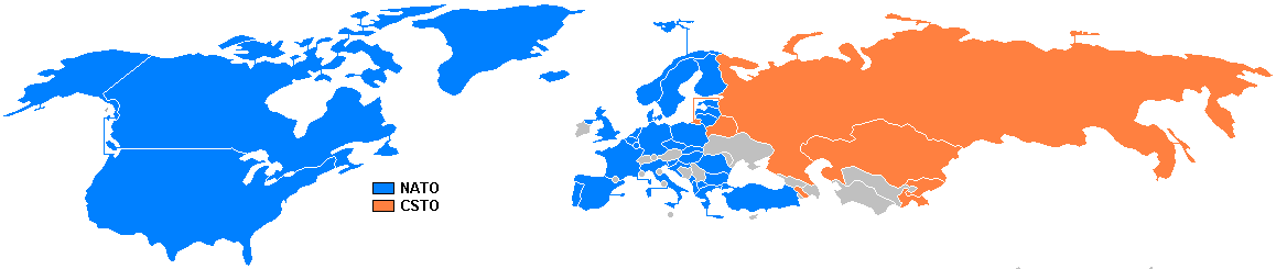 NATO / CSTO members map